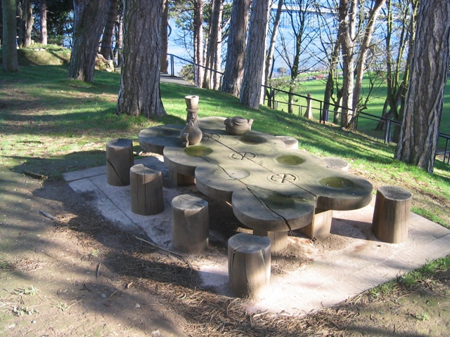 Happy Valley, Llandudno This interesting wooden sculpture, to be found within the Happy Valley public park, seems to represent the Mad Hatter's Tea Party from Alice in Wonderland. The lower gardens, the sea and Llandudno pier can be seen through the trees.